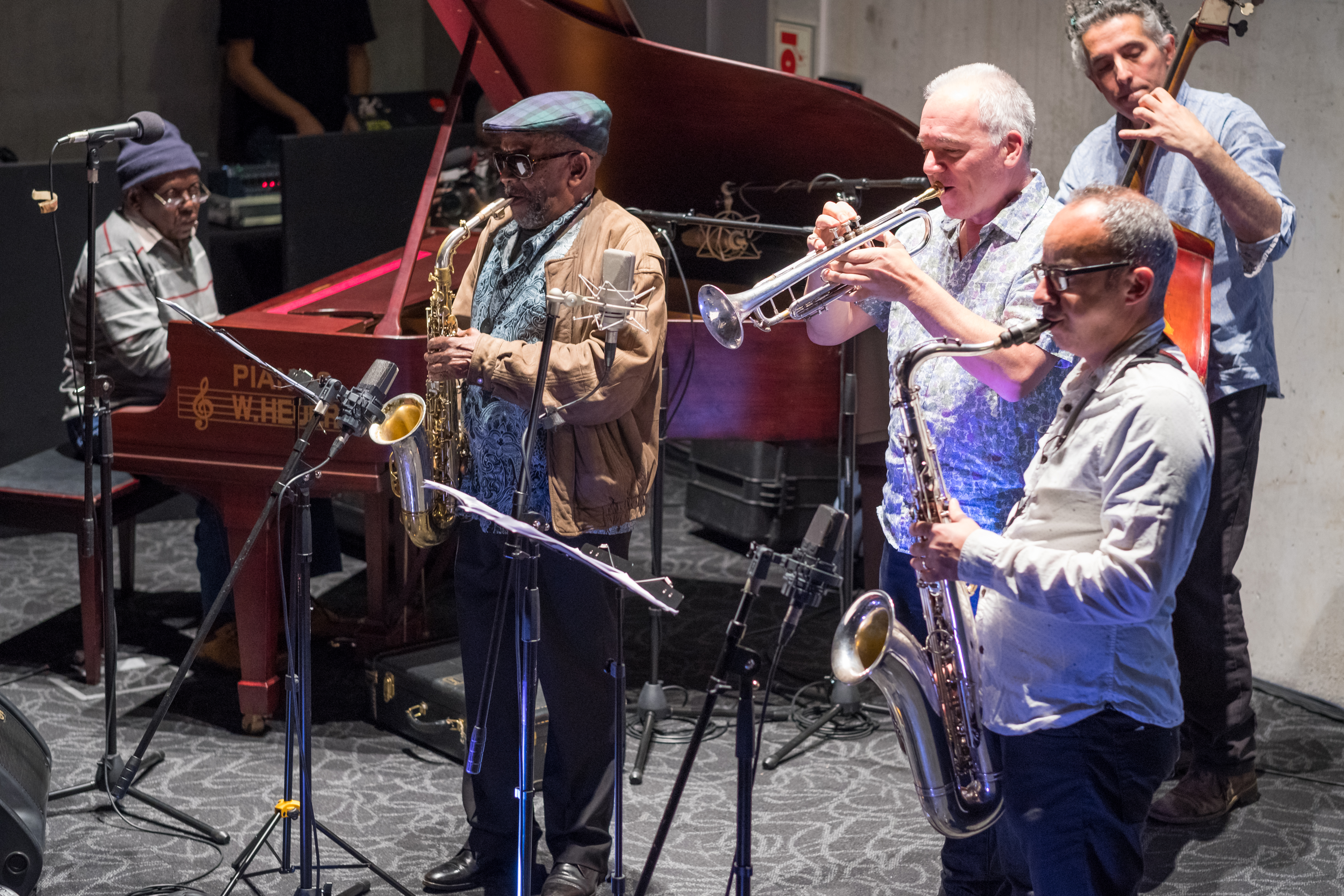 Tete Mbambisa's 'SA-UK Big Sound’ band [Bra Barney Rachabane (alto saxophone), Ayanda Sikade (drums), Julian Arguelles (tenor saxophone), Chris Batchelor (trumpet), Steve Watts (double bass)] performing on their The SA-UK BIG SOUND 2017 tour, launching Bra Tete's latest album ‘One for Asa’ (recorded in the UK in 2015) on 12 July 2017, in Khayelitsha, Cape Town.